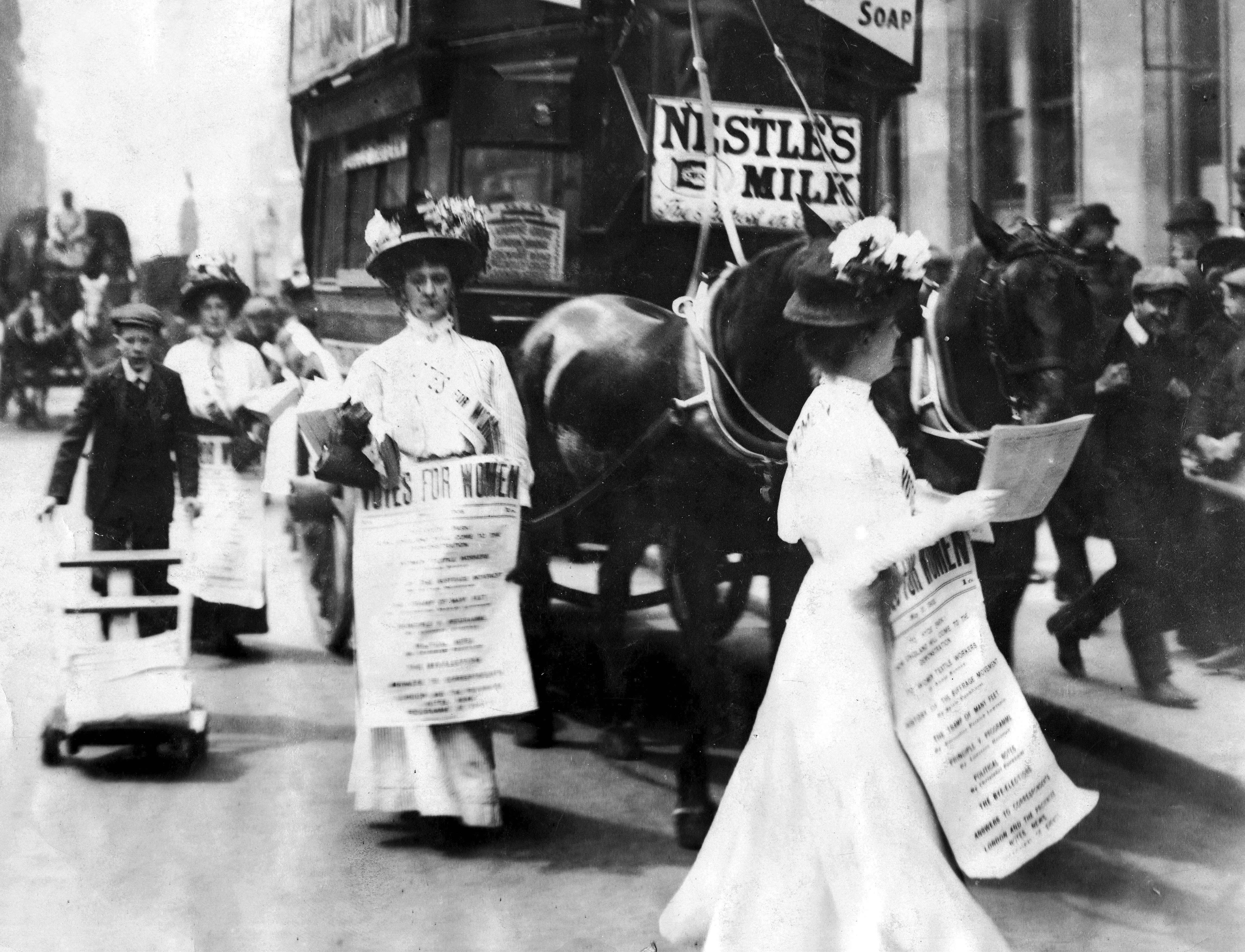 7JCC/O/02/046 Photograph, printed, paper, monochrome, women selling 'Votes for Women' in the street, stuck on paper on the reverse of 7JCC/O/2/45; manuscript inscription 'Jul 1908. Selling 'Votes for women' in Fleet St'